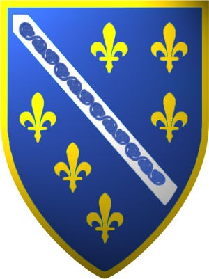 Coat of arms of Kotromanić royal family